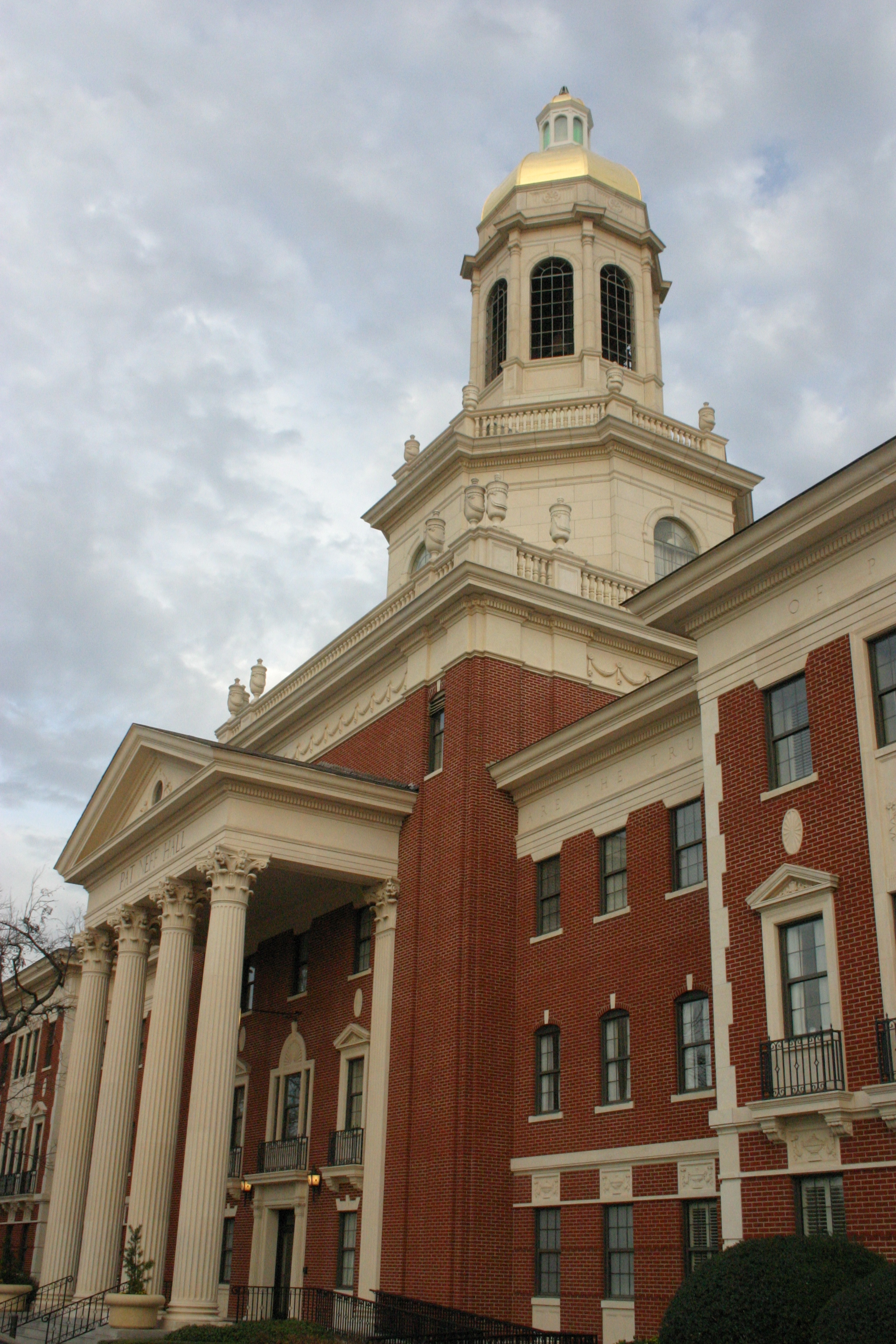 Pat Neff Hall, Baylor University, Texas, USA